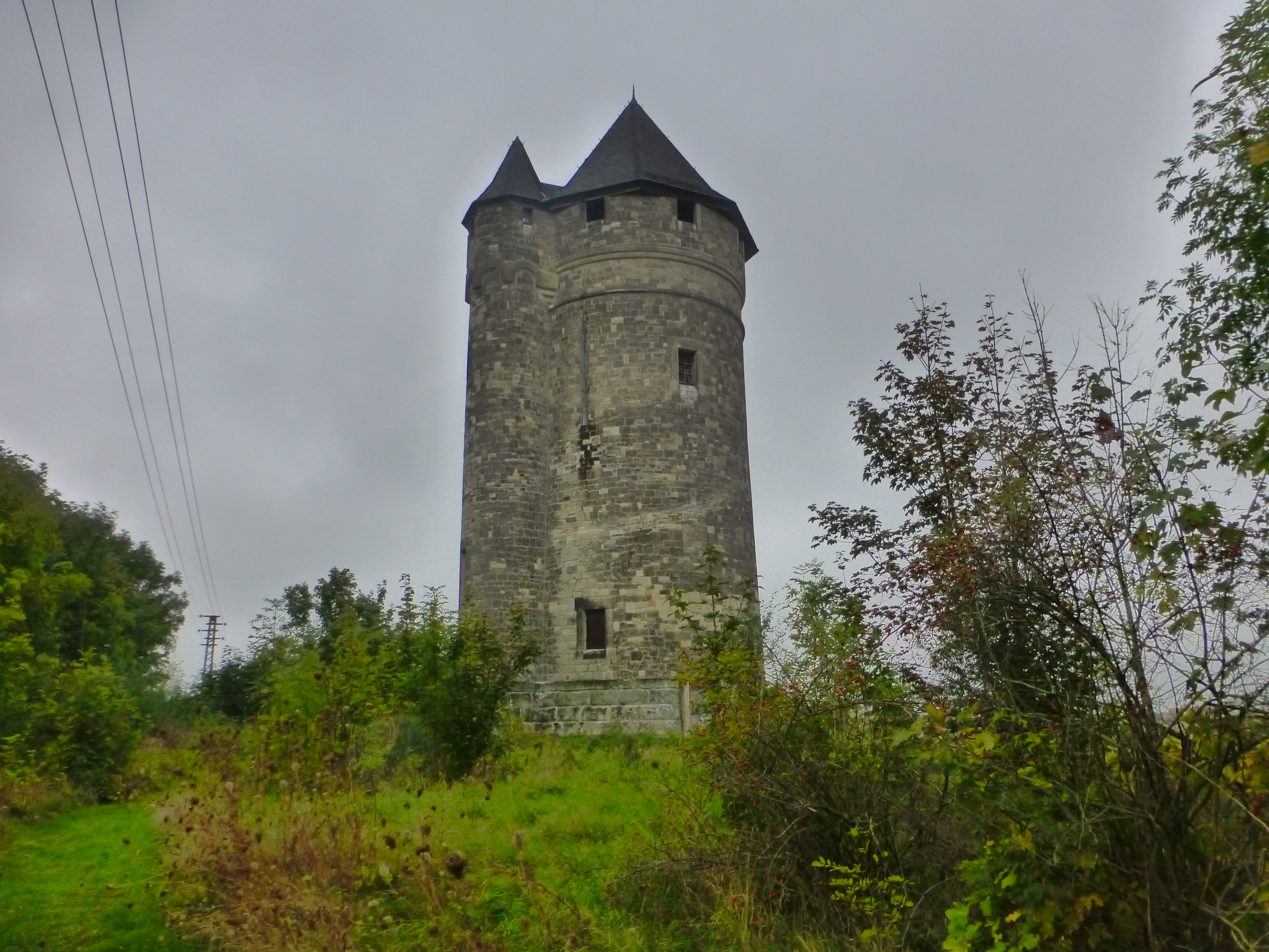 Water tower nearby the castle of Teutschenthal, Saalekreis, Saxony-Anhalt, Germany